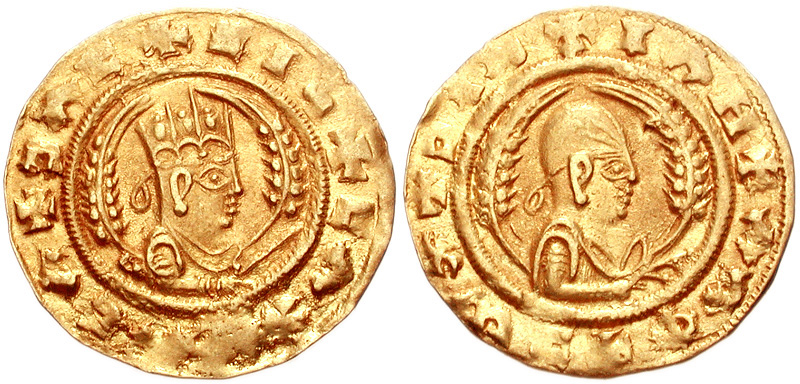 Coin of the Axumite king Eon